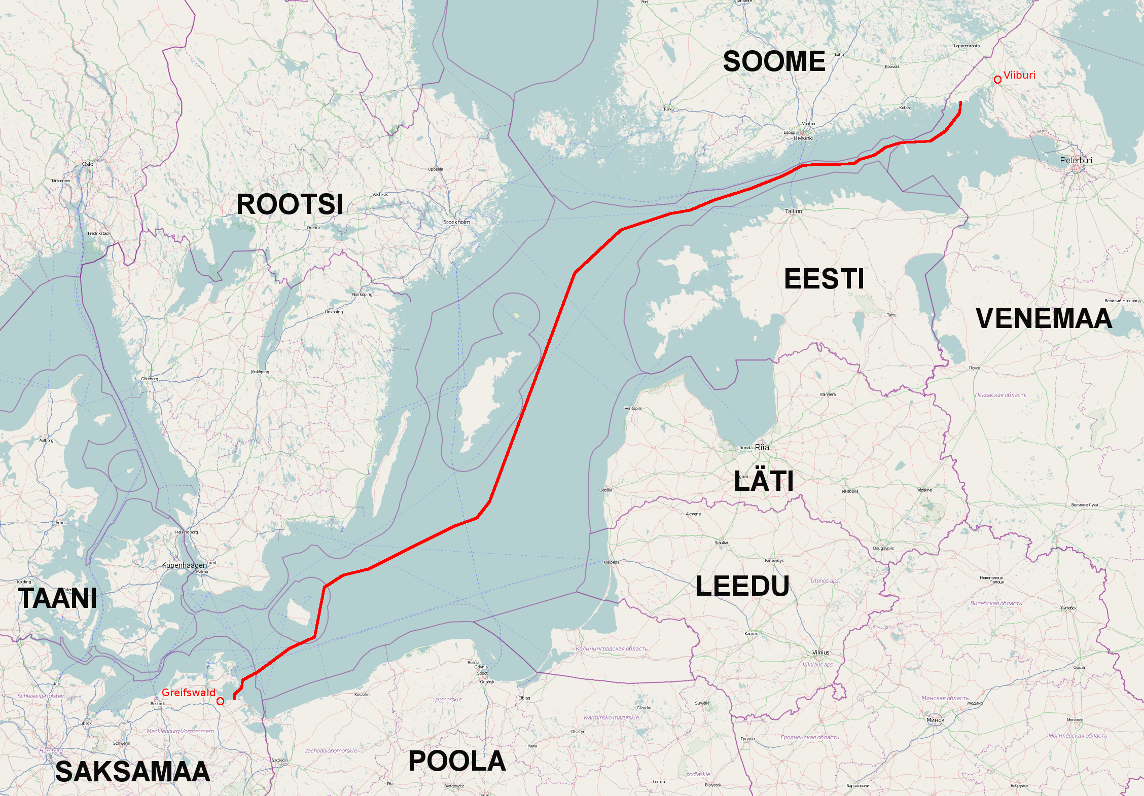 This map may be incomplete, and may contain errors. Don't rely solely on it for navigation.